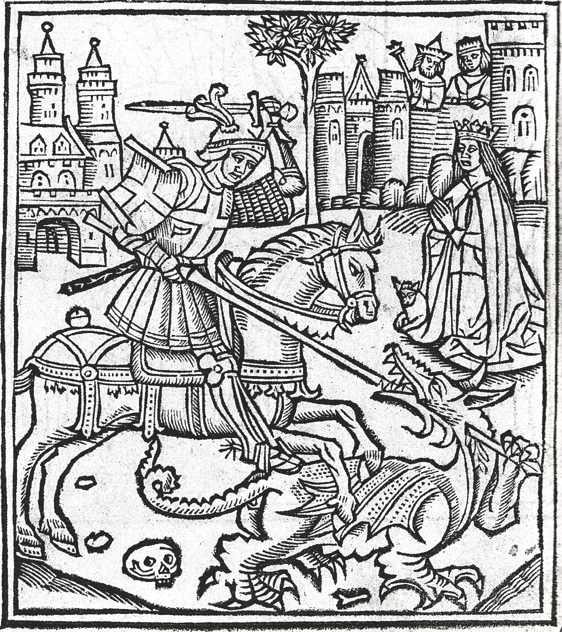 Life of Saint George, Woodcut of St George Slaying the Dragon, 1515, by Alexander Barclay (1476-1552)